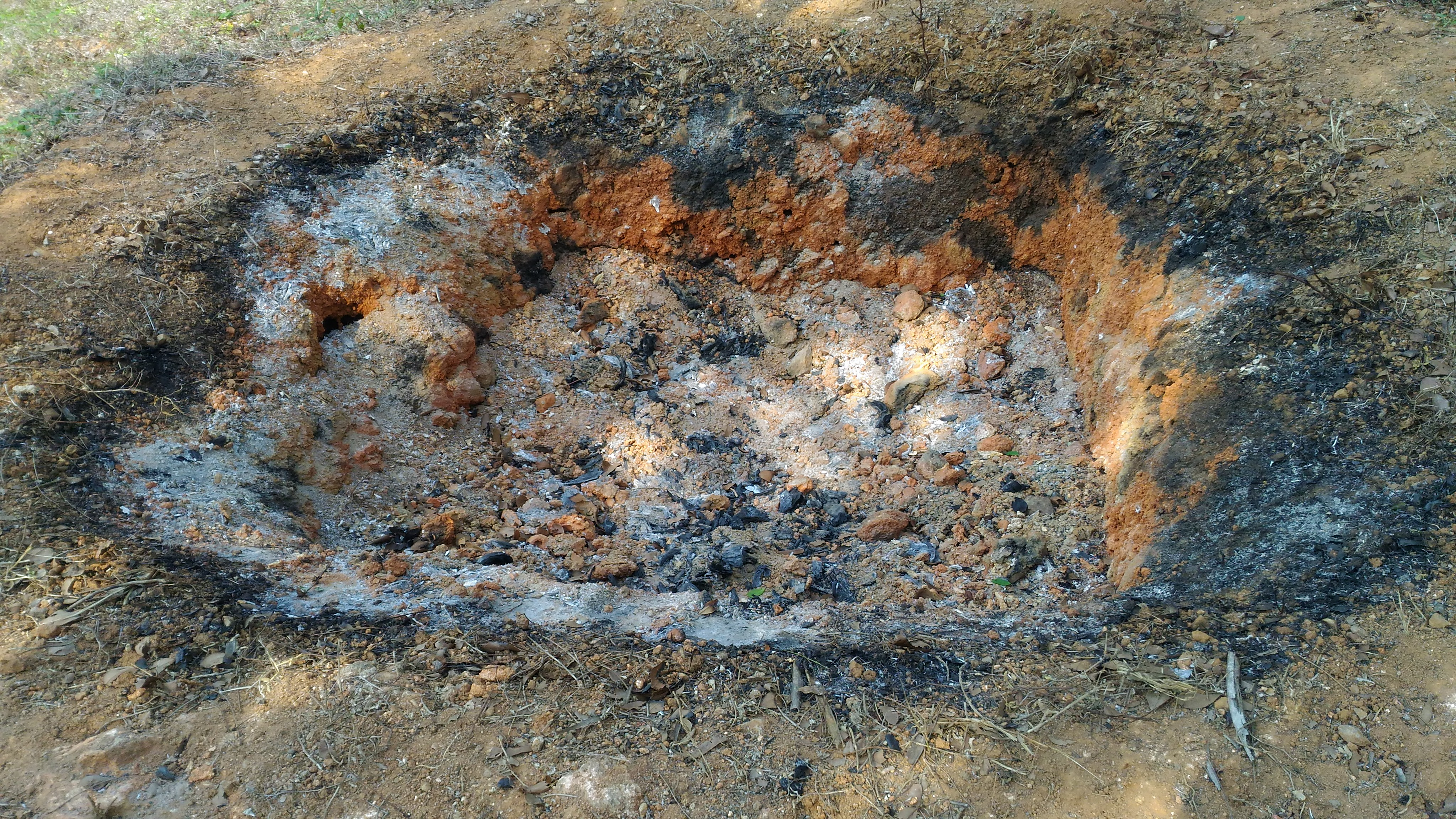 Ash Pit to make choottu veneer